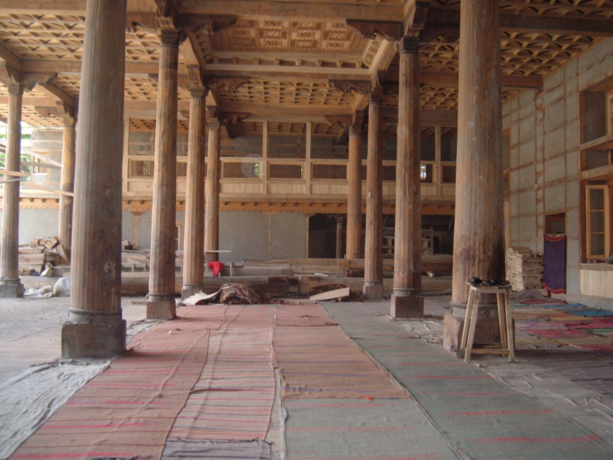 Photo of Grand Mosque of Sofia Imamia Noorbakshia at khaplu is 700 year old and it is the largest Khanqah (mosque) in Gilgit-Blatistan.